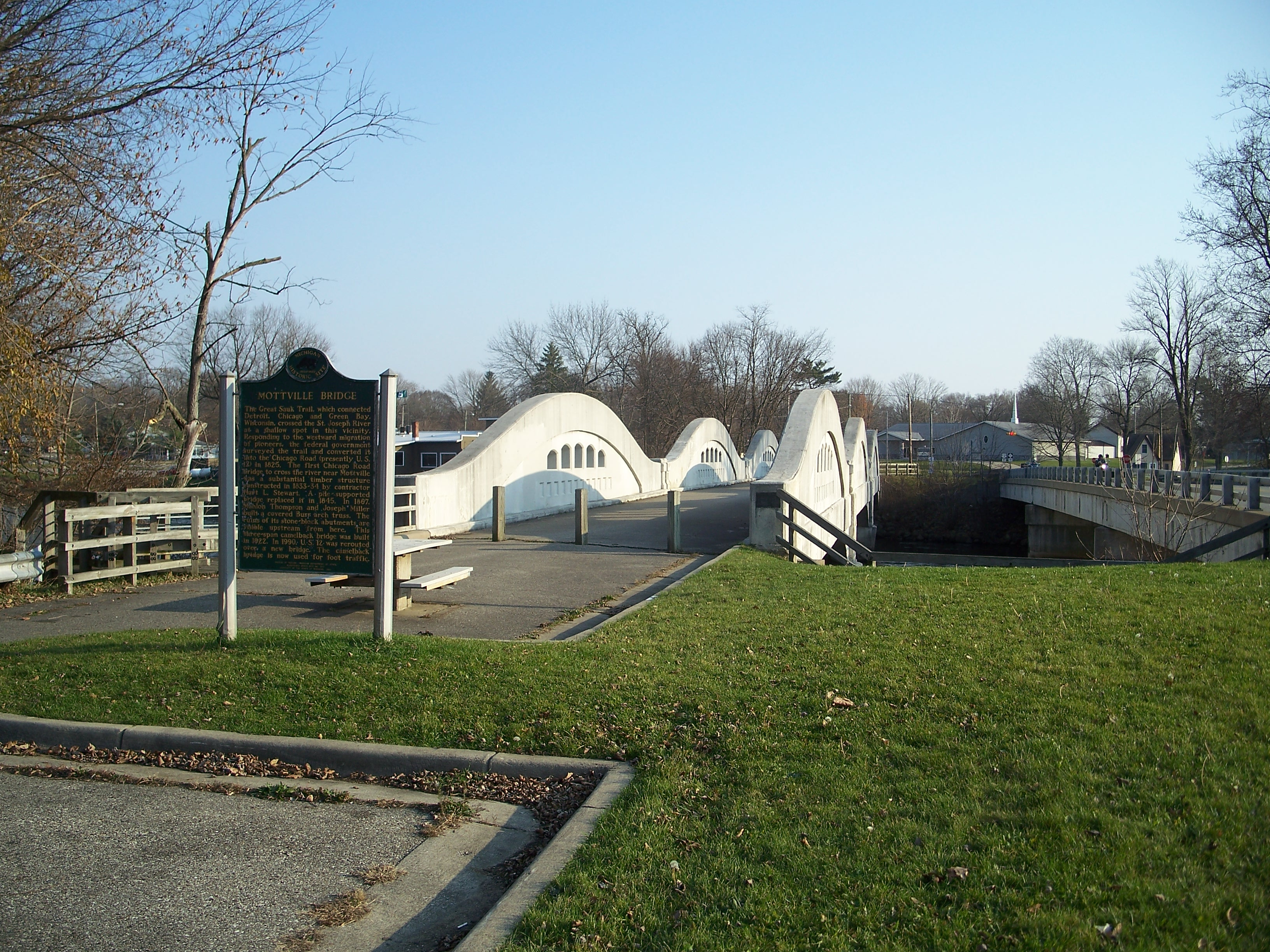 The US 12–St. Joseph River Bridge and its Michigan State Historic Site marker. The replacement bridge is visible at the right.